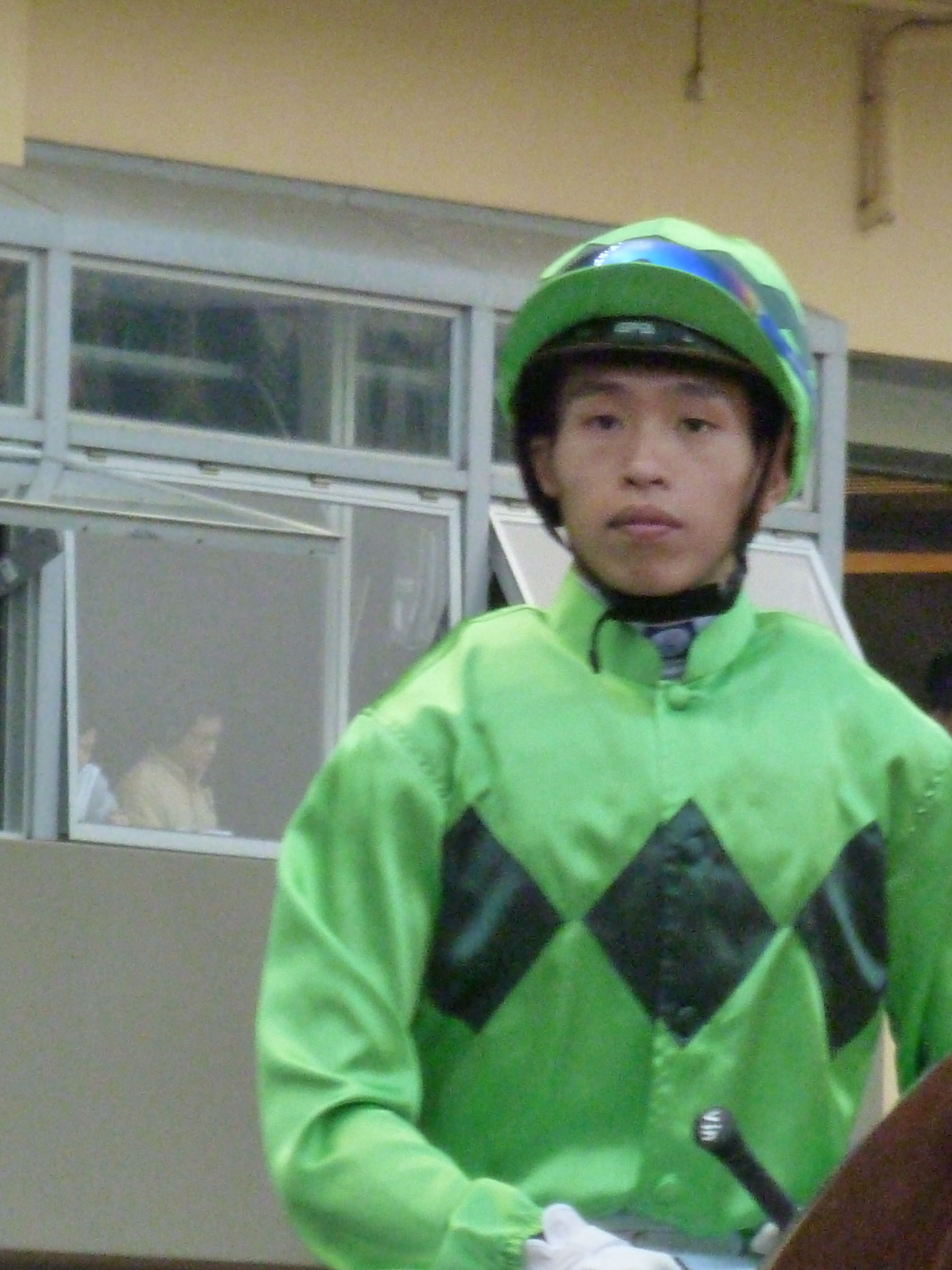 Vincent C Y Ho (20 Oct 2013, Happy Valley Racecourse) 中文（香港）: 何澤堯 (20 Oct 2013, 跑馬地日馬)